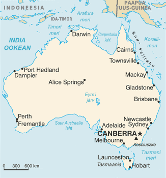 Tegemist on eesti keelde tõlgitud Austraaliat kujutava kaardiga